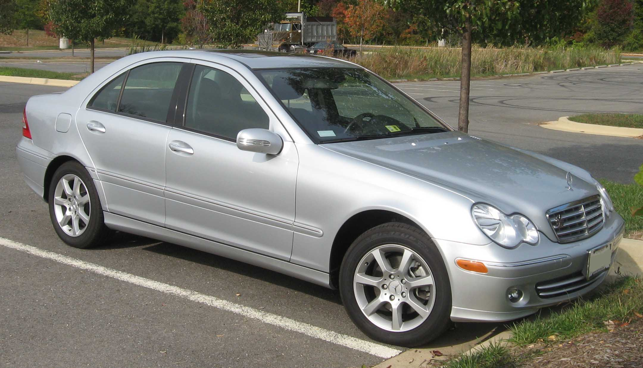 2006-2007 Mercedes-Benz C350 photographed in Accokeek, Maryland, USA.